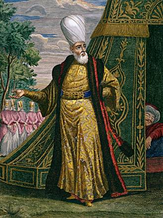 It is identified as an 18th Century engraving. Plainly public domain as far as US law is concerned url